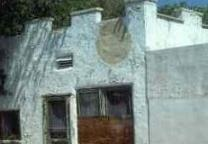 Remains of town Geronimo, Arizona